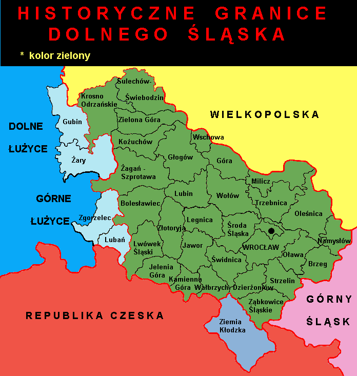 Map showing the historical location of Lower Silesia